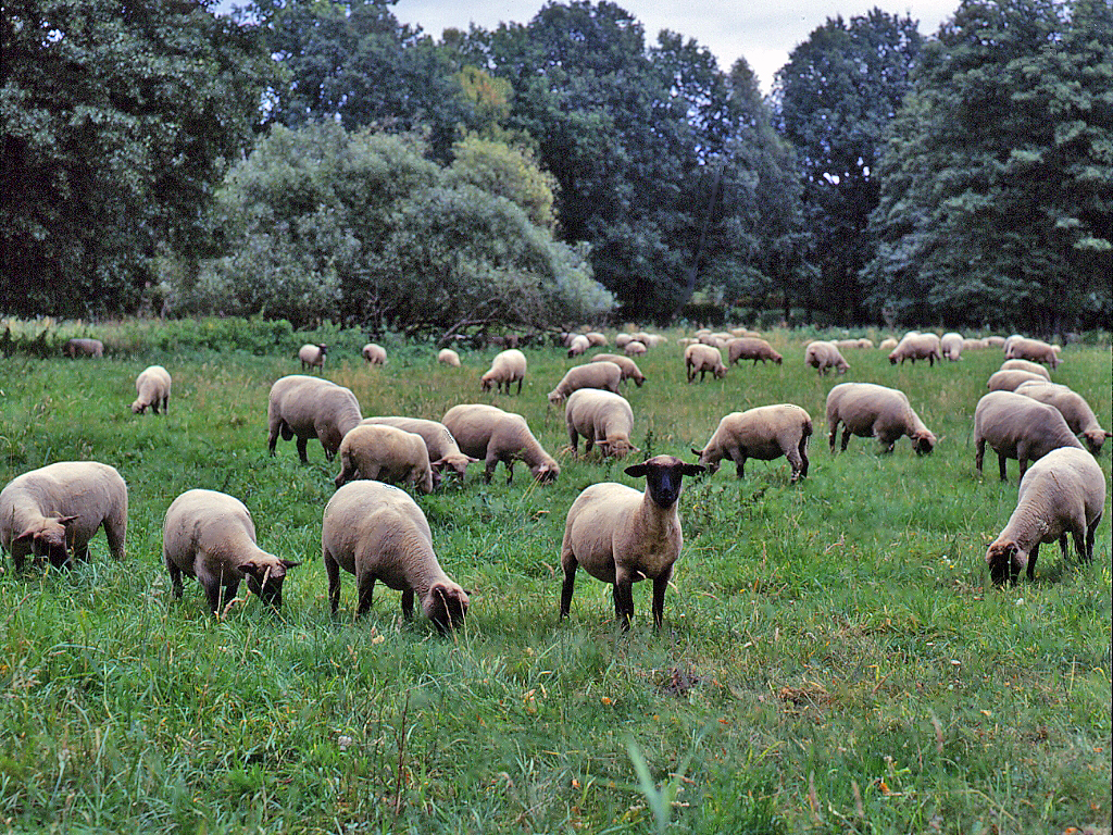 Ovis spec., Germany.